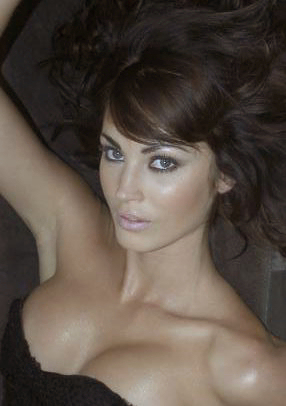 Tanit Phoenix, South African supermodel and International actress.